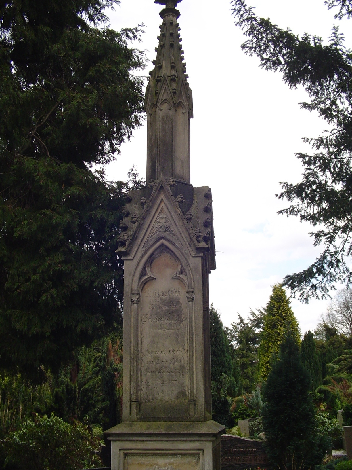 F.Engels (sen.) monument on Unterbarmen Cemetery, Wuppertal, Germany